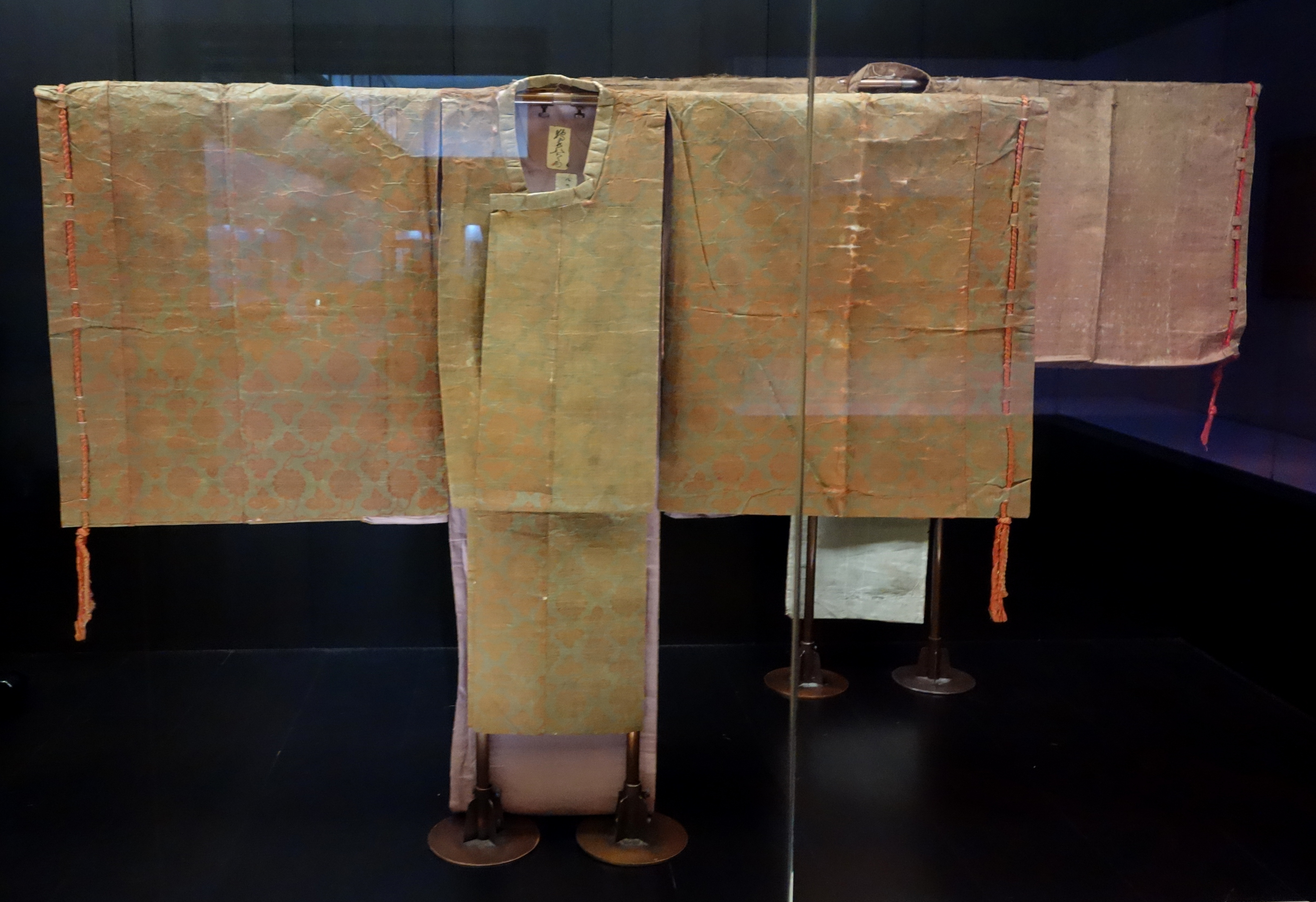 Exhibit in the Tokyo National Museum, Tokyo, Japan. This artwork is old enough so that it is in the public domain.